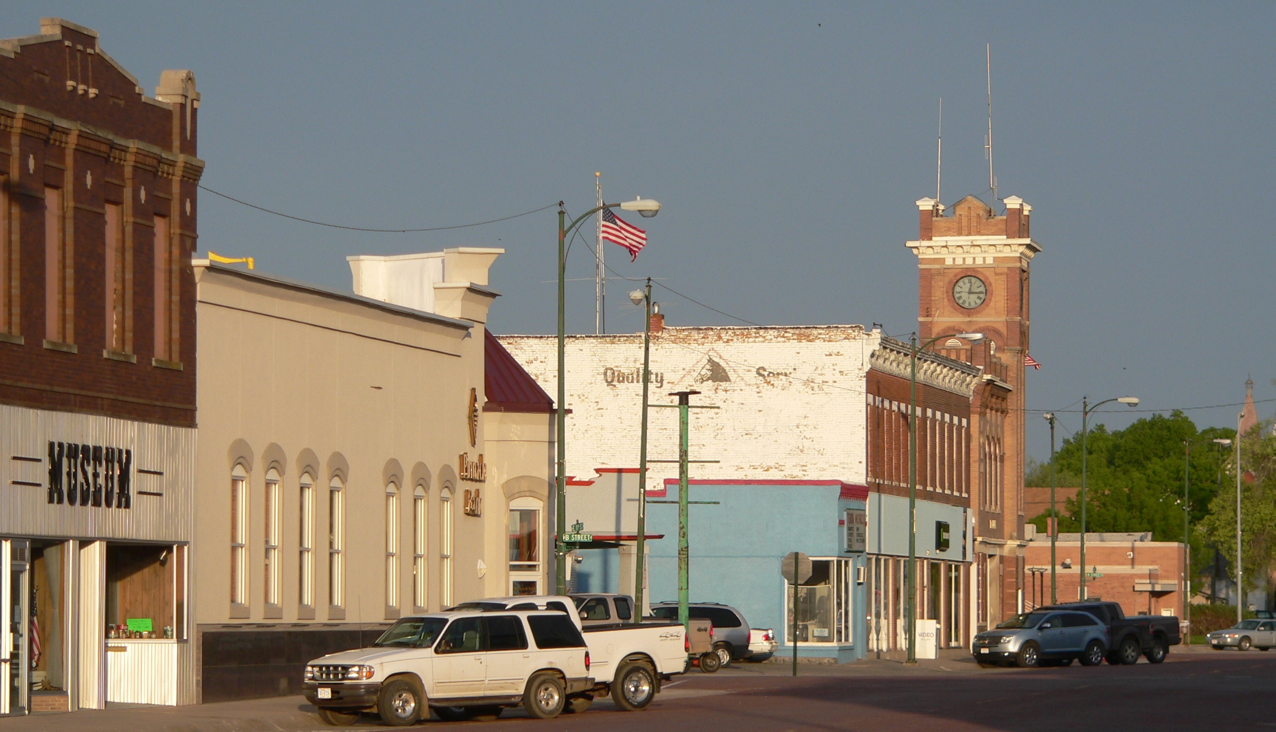 South side of 11th Street in Schuyler, Nebraska, looking westward from a point east of B Street. The clock tower is on the Schuyler City Hall, which was constructed in 1908 and is listed in the National Register of Historic Places.